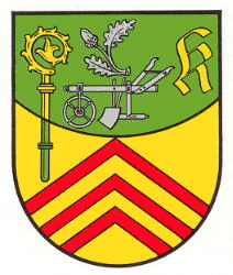 Coat of arms of Kröppen